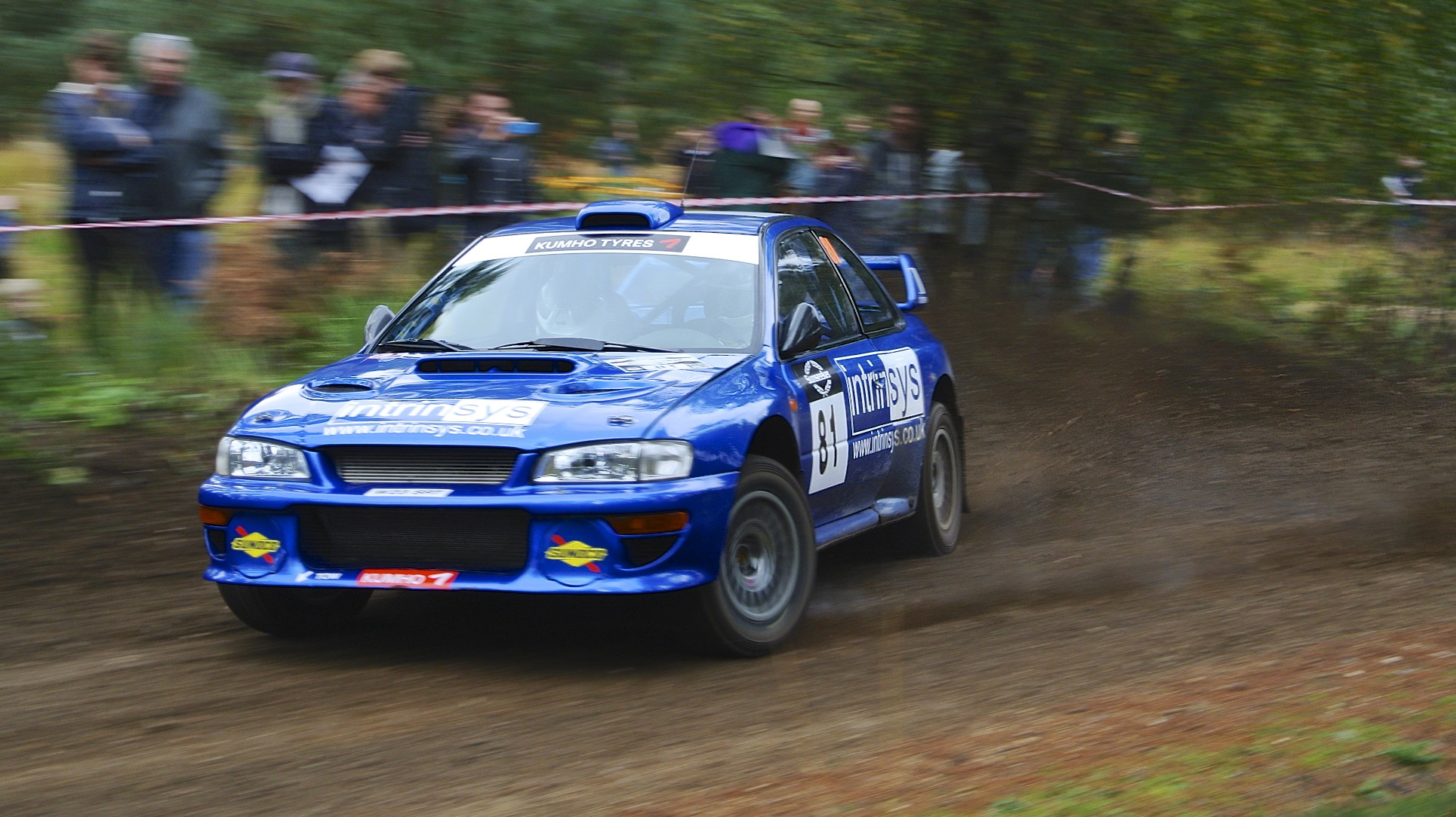 A super day out at the rally - and the rain held off too! Various classes of cars were racing from historic classics right up to current top spec factory cars. For sheer fun and exuberance nothing can beat the sight of a well driven rear wheel drive Escort and who does not enjoy the classic Mini, or a Saab? All photos taken with the Nikon V1 camera in S mode, a slowish shutter speed was used to enable panning with a blurred background.